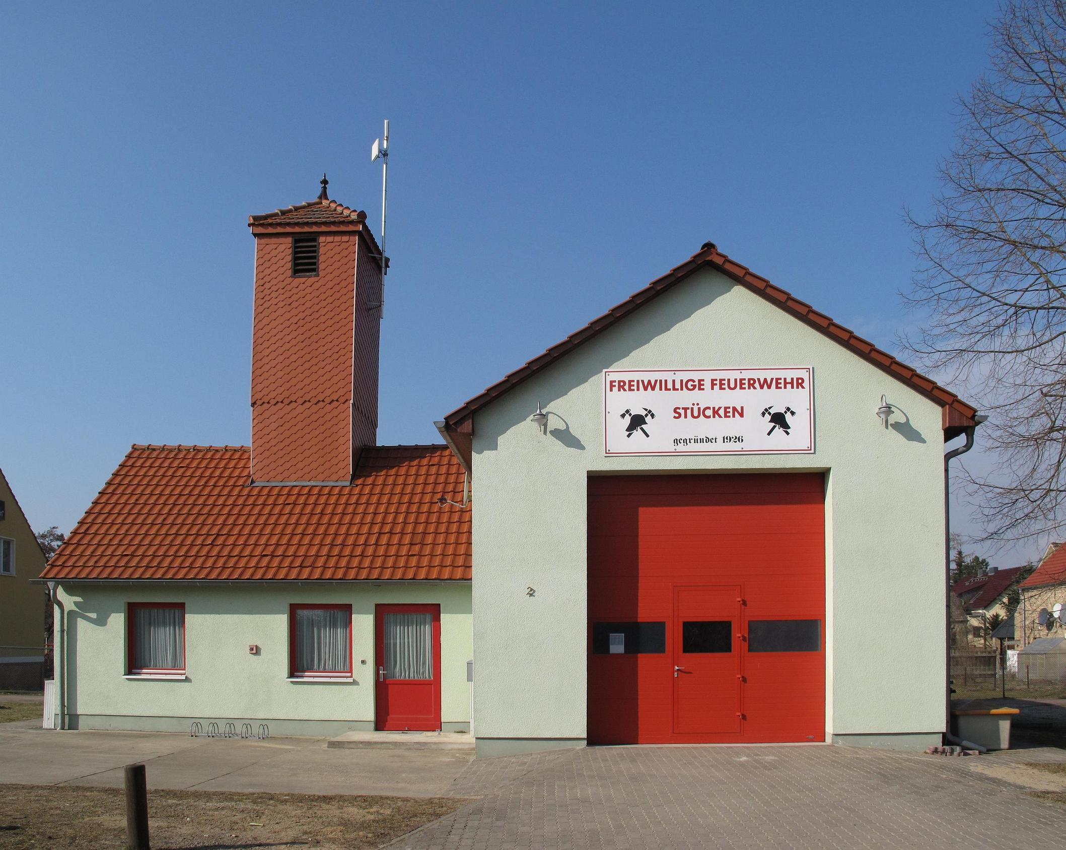 Volunteer fire department, founded in 1926, in Stücken. Stücken is a part of Michendorf in the district Potsdam-Mittelmark, state Brandenburg, Germany.